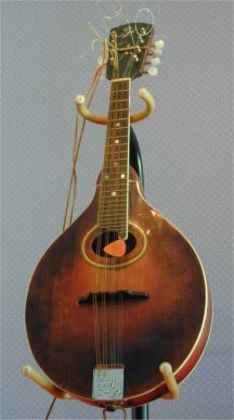 This is a 1921 Gibson A4 model mandolin. The pick guard and everything that might vibrate or dampen the sound has been removed. It is very light (i.e., does not have a truss rod). As of 2006, it still has a gorgeous sound and action and would cost maybe $3000 or so if in mint condition with all original equipment. In the 1980's, it got overheated and the entire front came unglued. All the luthiers I knew refused to work on it. I called Gibson and they recommended a local workman down in Tennessee (name forgotten) whom they liked. I shipped the instrument to that guy, who fixed it for $100 in 6 weeks, and it came back in better shape than before the meltdown. He said the front had to be steamed to achieve its original arch shape, and then reglued, no big deal to a luthier equipped with steaming facilities.